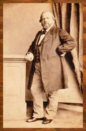 The image of German composer Ferdinand Hiller (1811-1885).